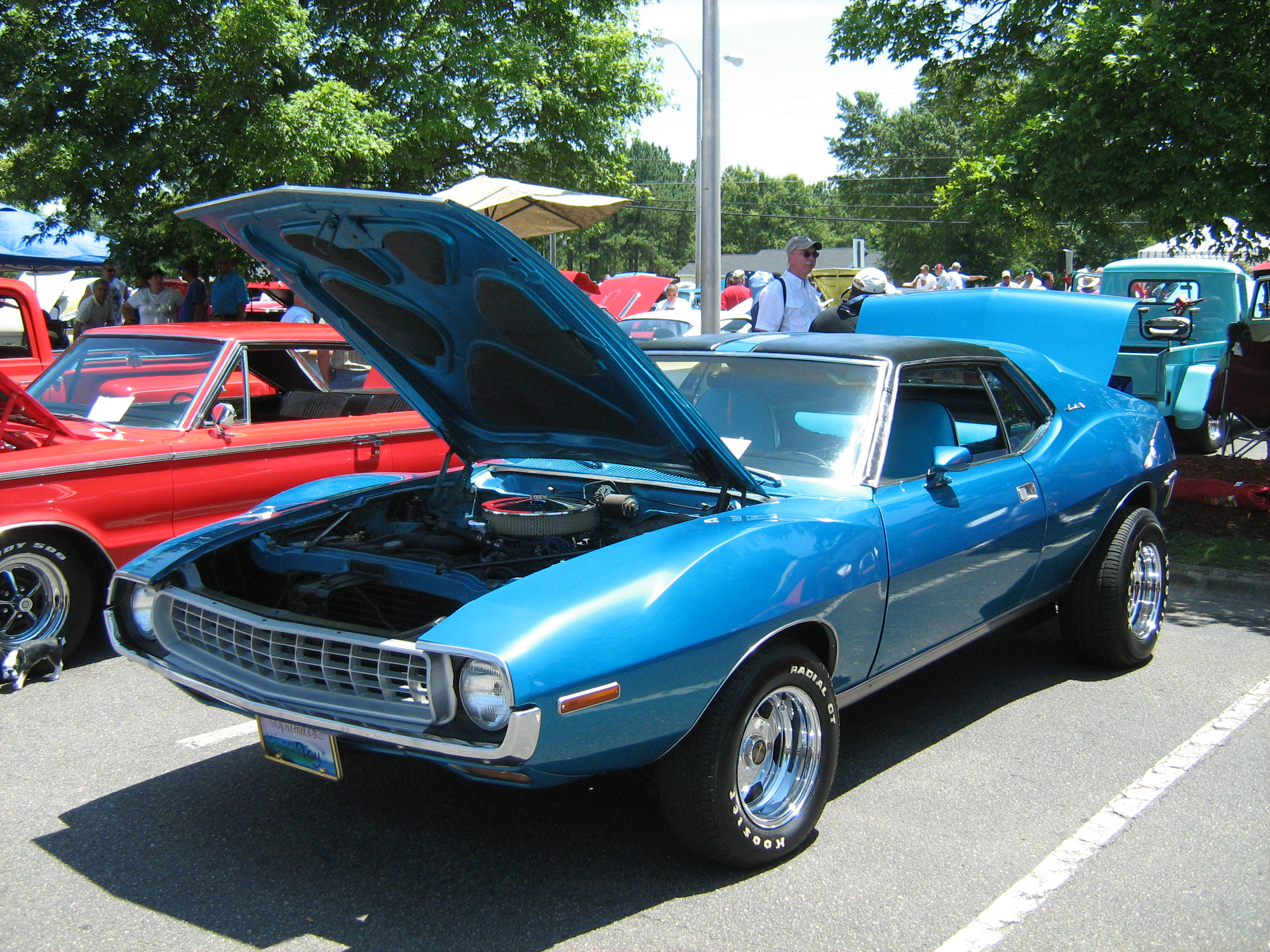 1972 Javelin by American Motors Corporation (AMC), a pony car equipped with AMC's 360 CID (5.9 L) V8 engine. Note: this vehicle has been customized with wheels and tires, outside rear-view mirrors, and seat upholstery.